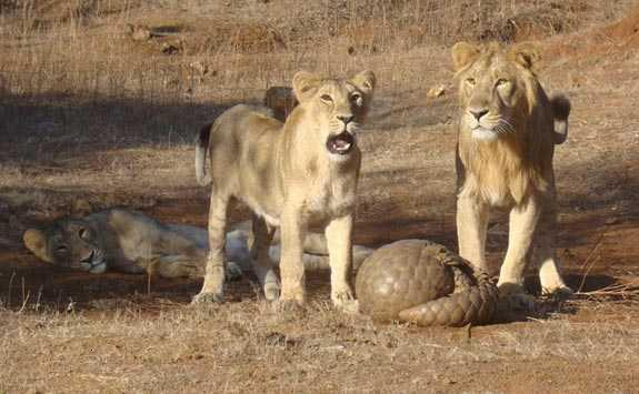 Pangolin defending itself from lions attack, Gir Forest, Gujarat, India